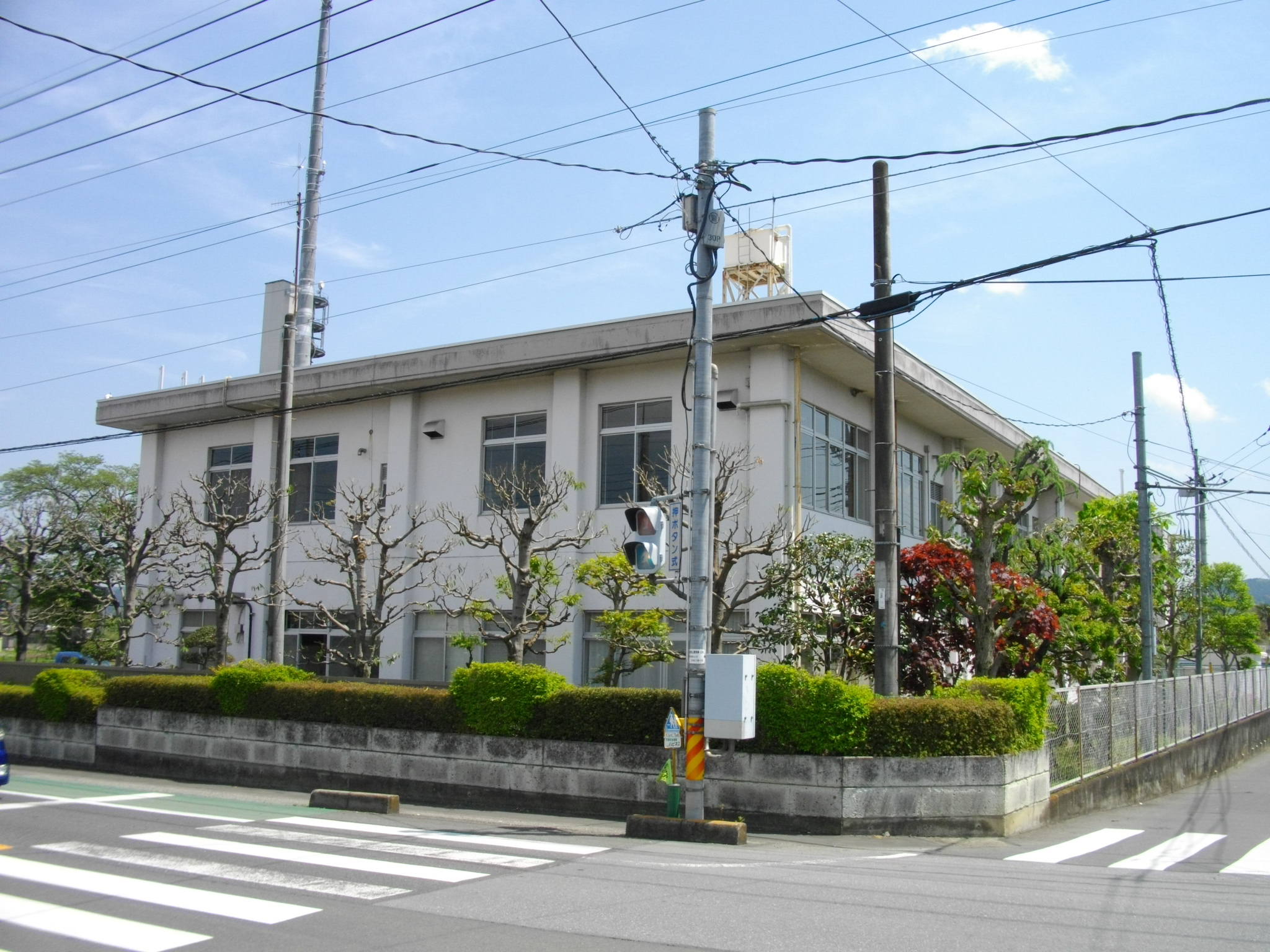 Nasukarasuyama Police Station